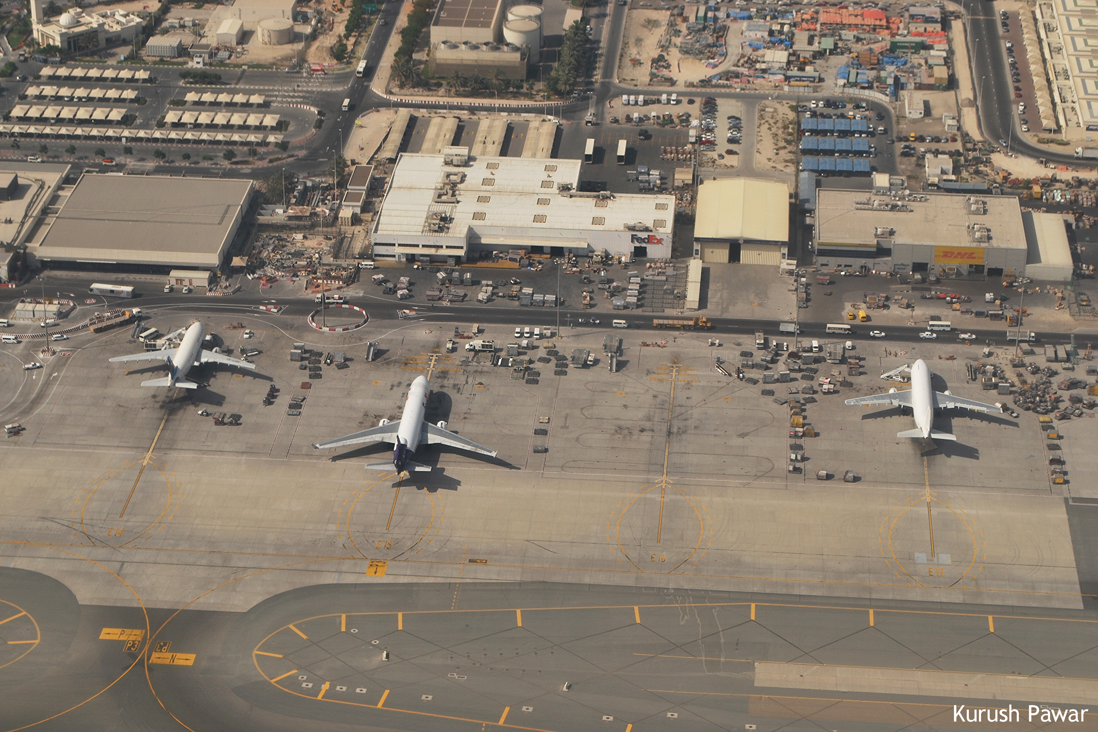 Taken immediately after rotation from 30L at DXB.